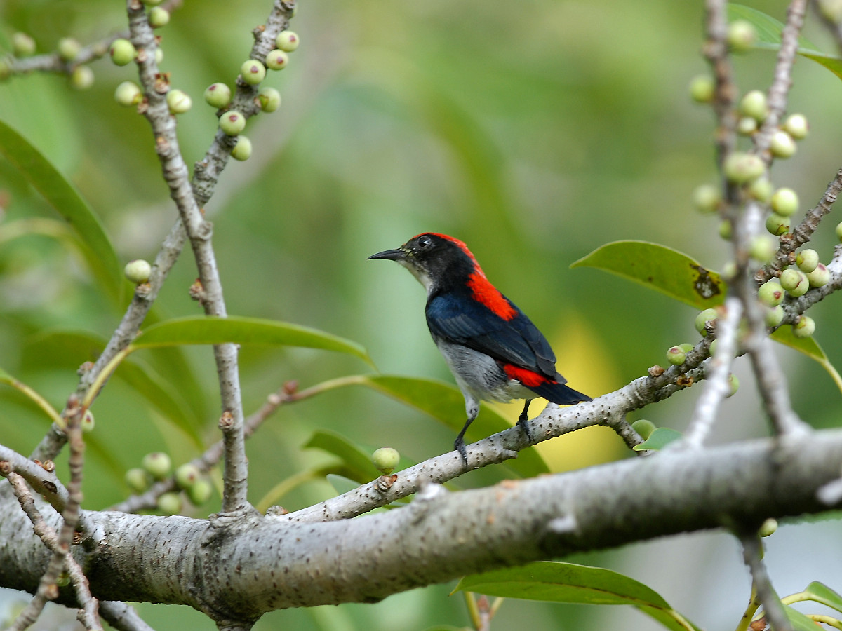 Male, taken at Suan Rotfai, Bangkok, Thailand.